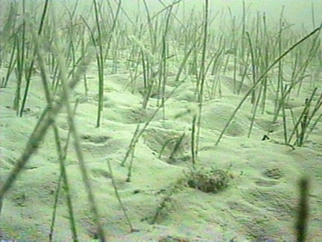 Cymodocea nodosa undersea image near of Alicante (Spain).